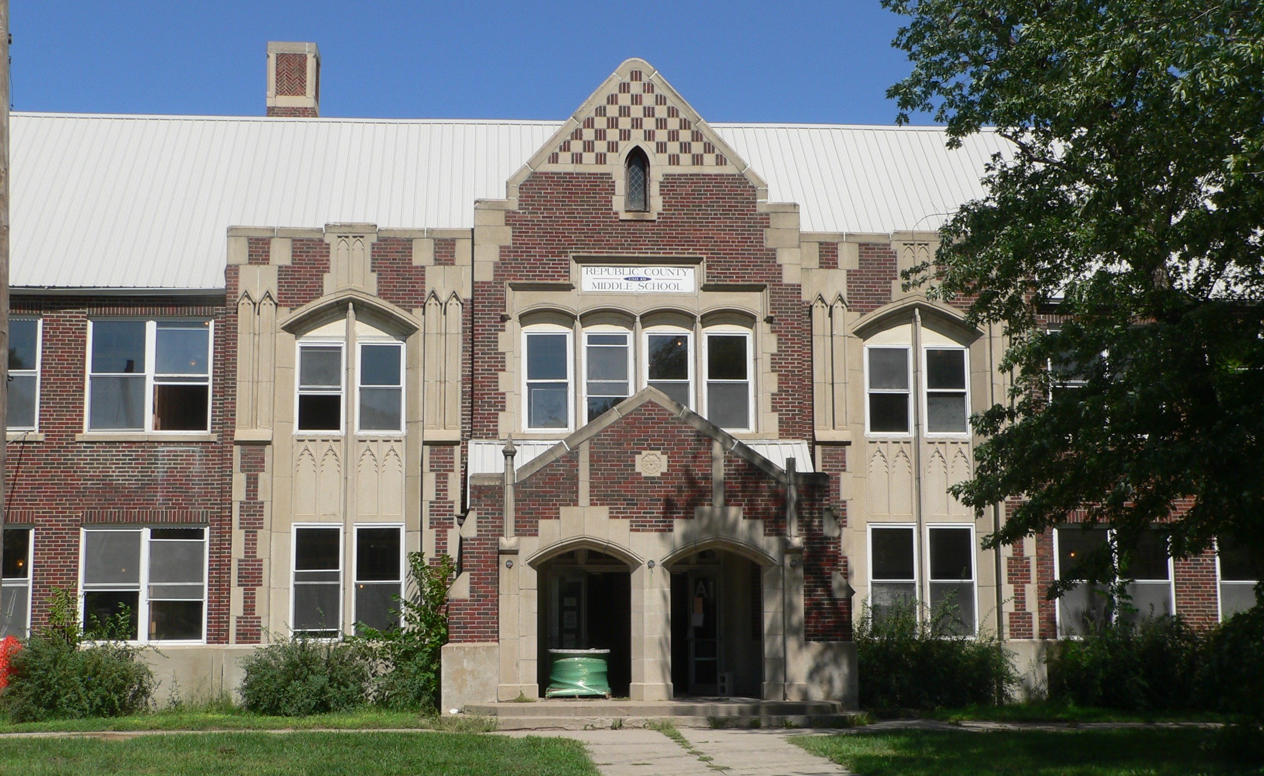 Belleville High School building, located on north side of 18th Street between J and K Streets in Belleville, Kansas. South side, seen across 18th.